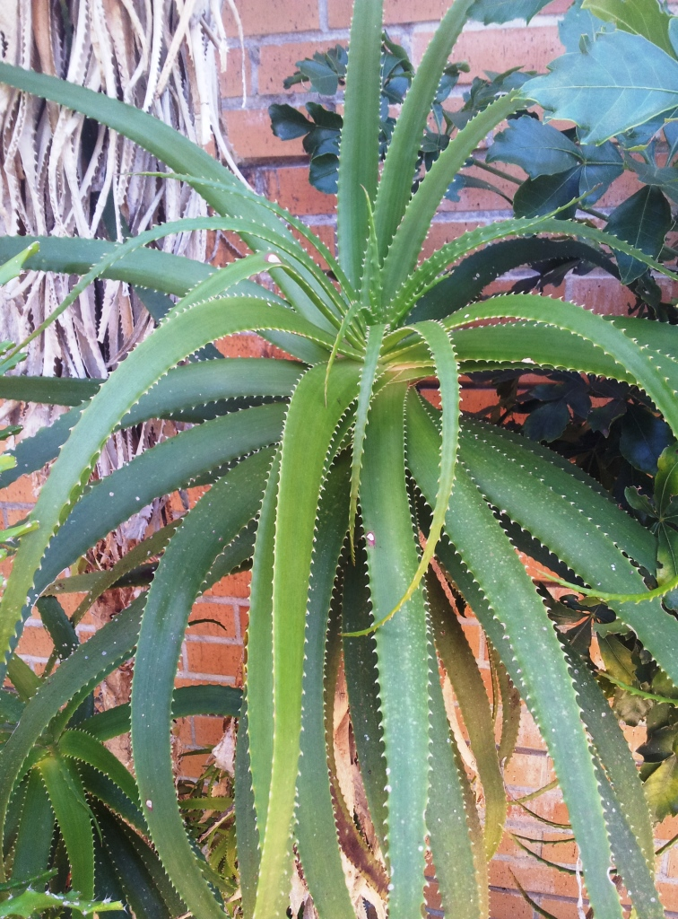 Aloe pluridens - Kirstenbosch NBG 1